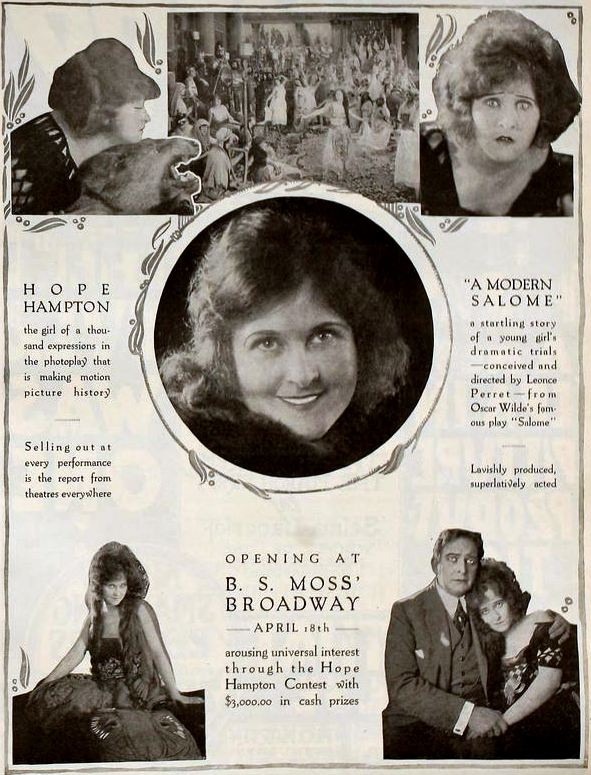 Advertisement for the American drama film A Modern Salome (1920) with Hope Hampton, on page 3617 of the April 24, 1920 Motion Picture News.